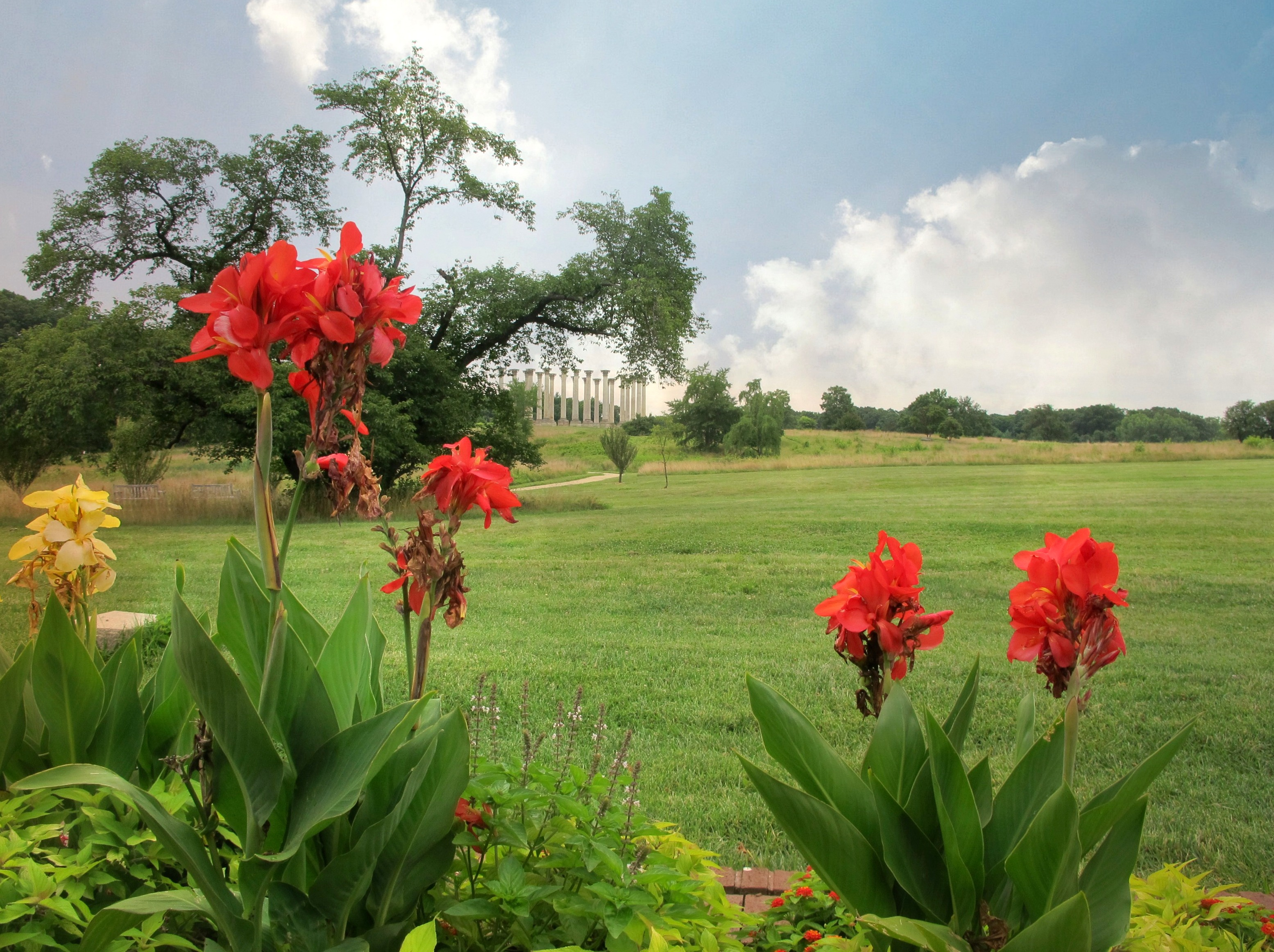 Credit the National Arboretum and link to this page